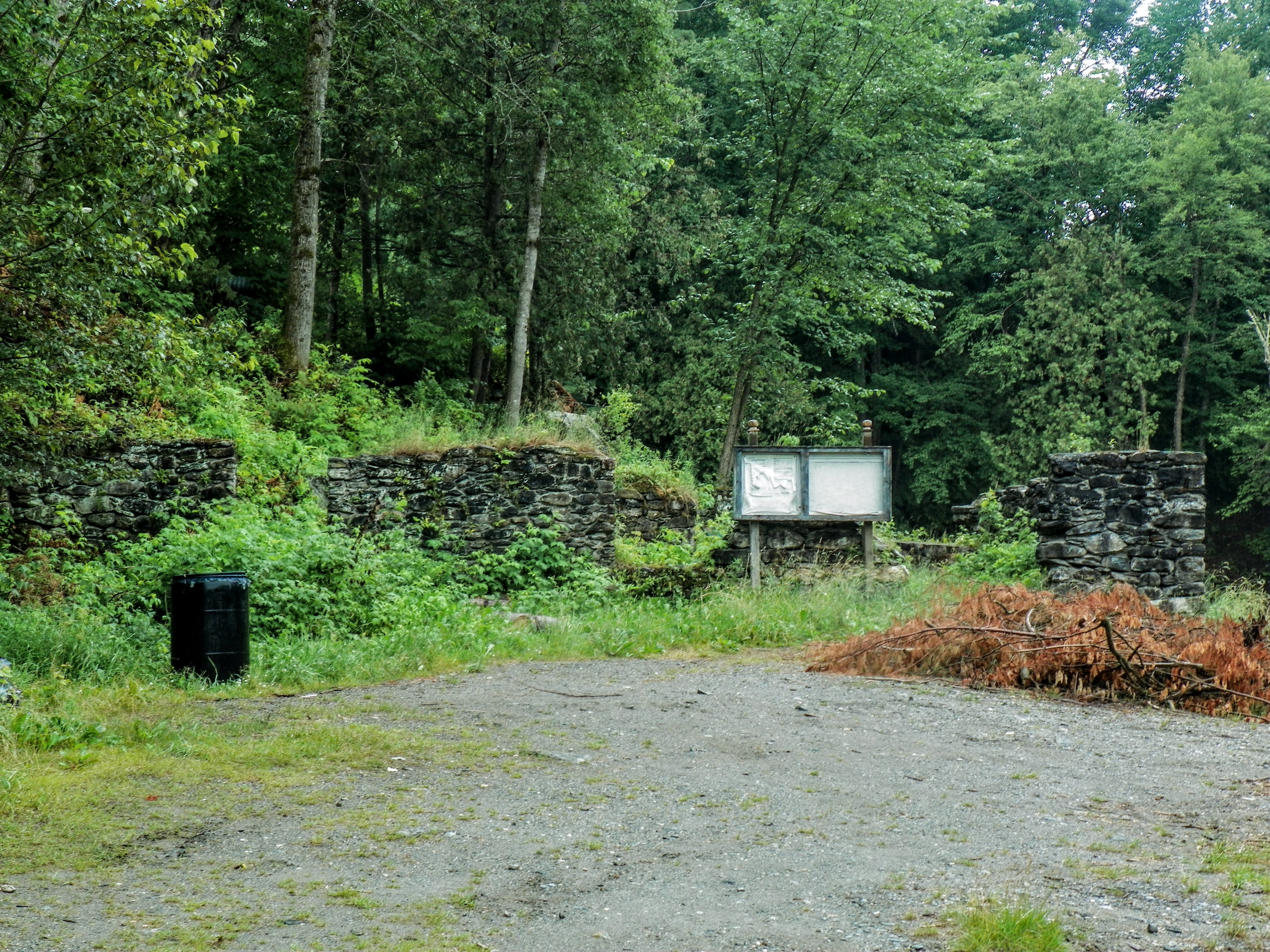 Moulin des Fermes Historic Site in Saint-Joseph-des-Érables, Québec.